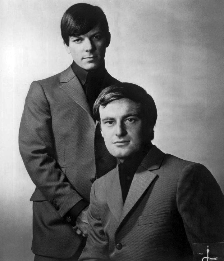 Photo of Chris Bell and Peter Allen when they were a duo performing as "The Allen Brothers".